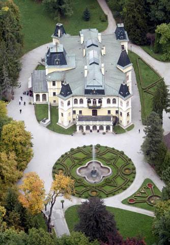 Betliar, Slovakia, aerial photography